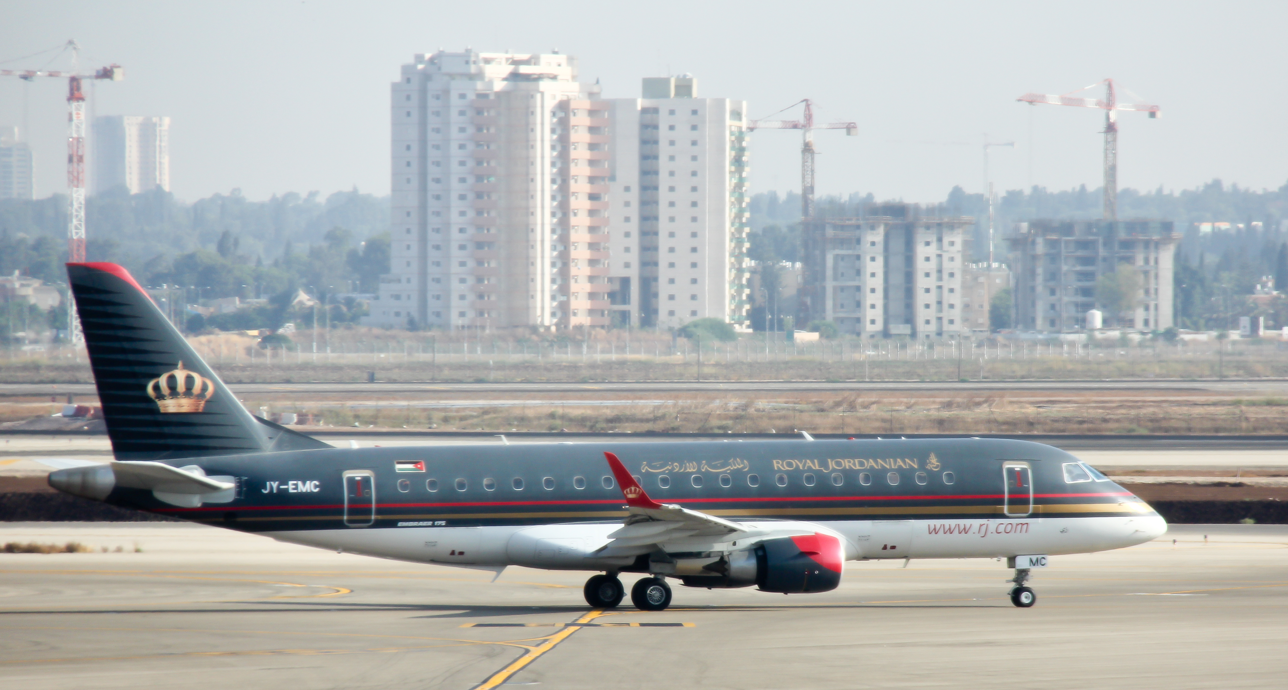 Royal Jordanian - Embraer ERJ-175-200LR - Tel Aviv Ben Gurion, registration JY-EMC